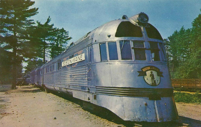 Postcard photo of the Boston and Maine Railroad Flying Yankee in the Edaville Museum, Carver, Massachusetts.